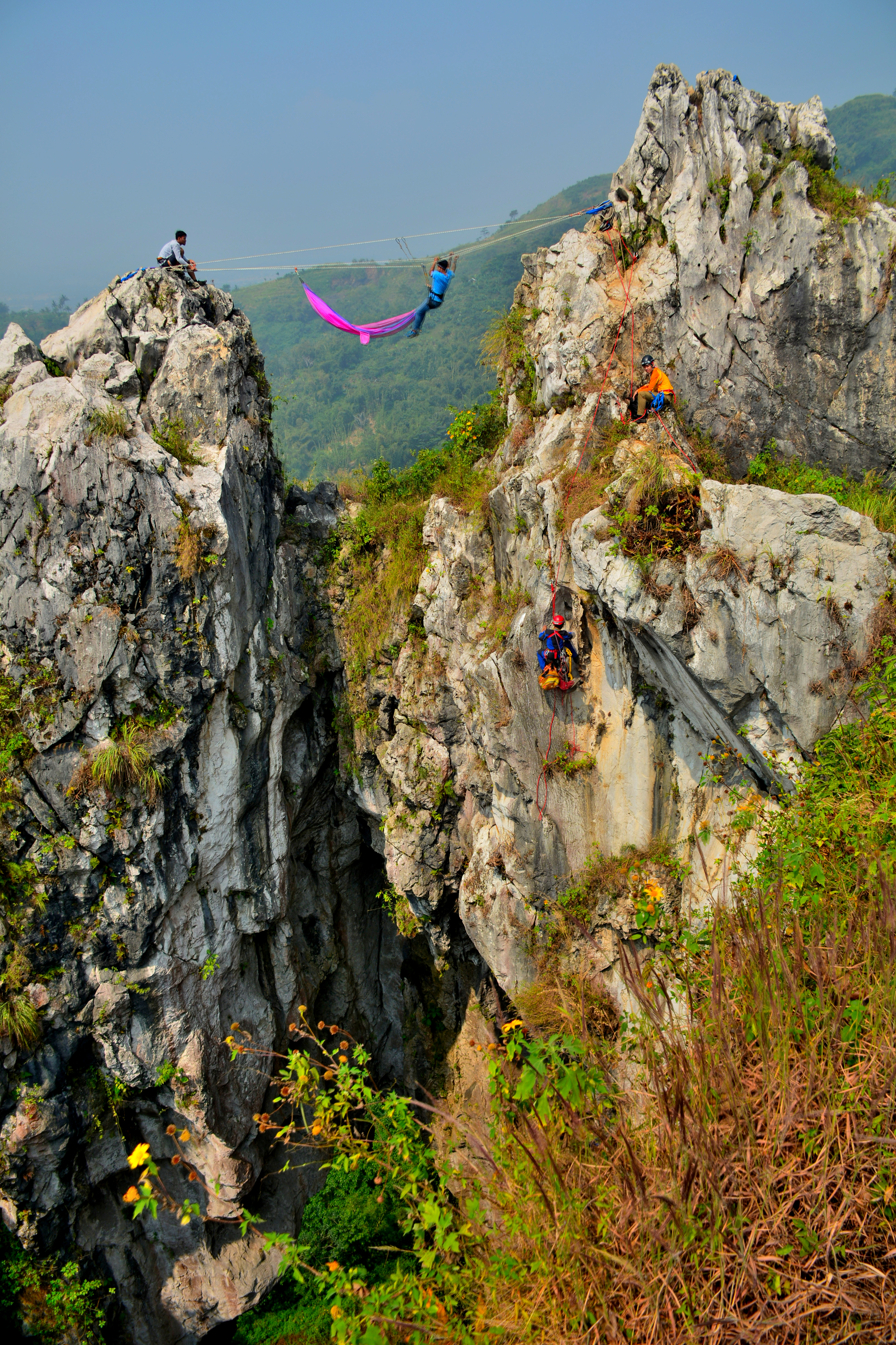 Not only climbing, lately Citatah 125 is also used for other extreme activity such as vertical hammocking